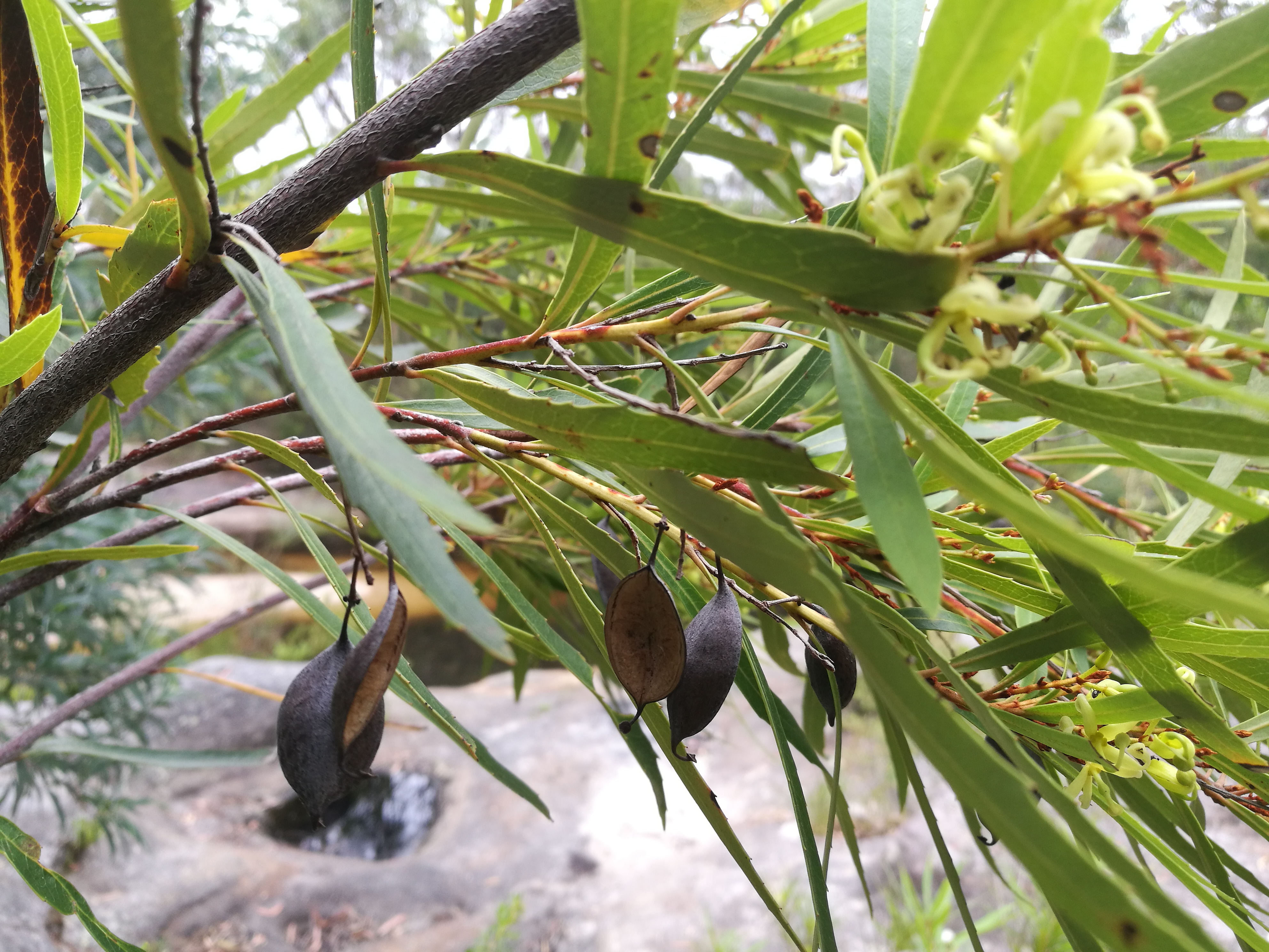 River Lomatia,Lomatia myricoides, the Duckponds, Ku-ring-gai NP, NSW, 28/01/2018